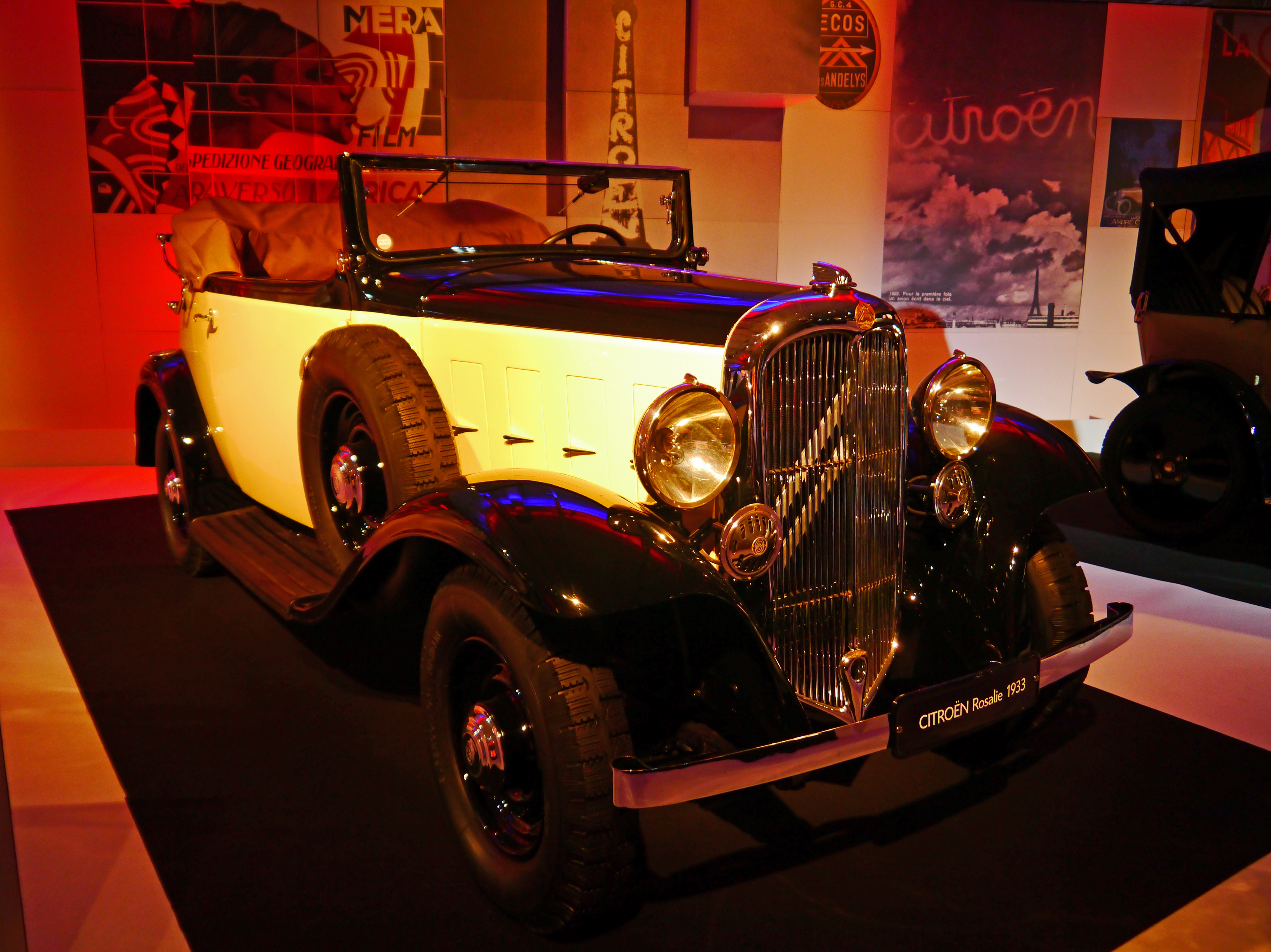 1933 Citroën Rosalie 10L Cabriolet. Four-cylinder 1767 cc engine. Top speed: 100 km/h (62 mph)